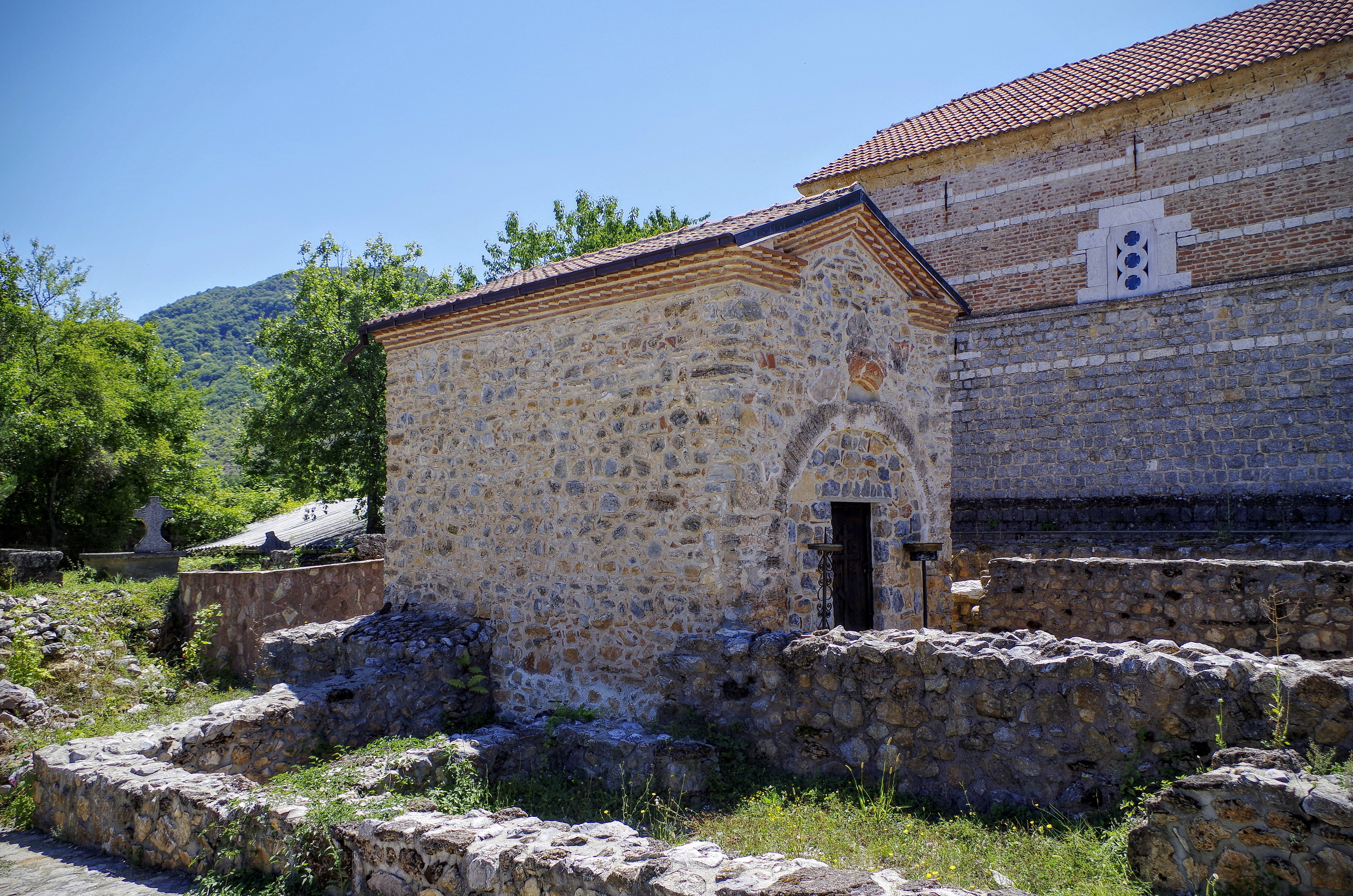 Part of All Saints Monastery in the village Lešani, Macedonia